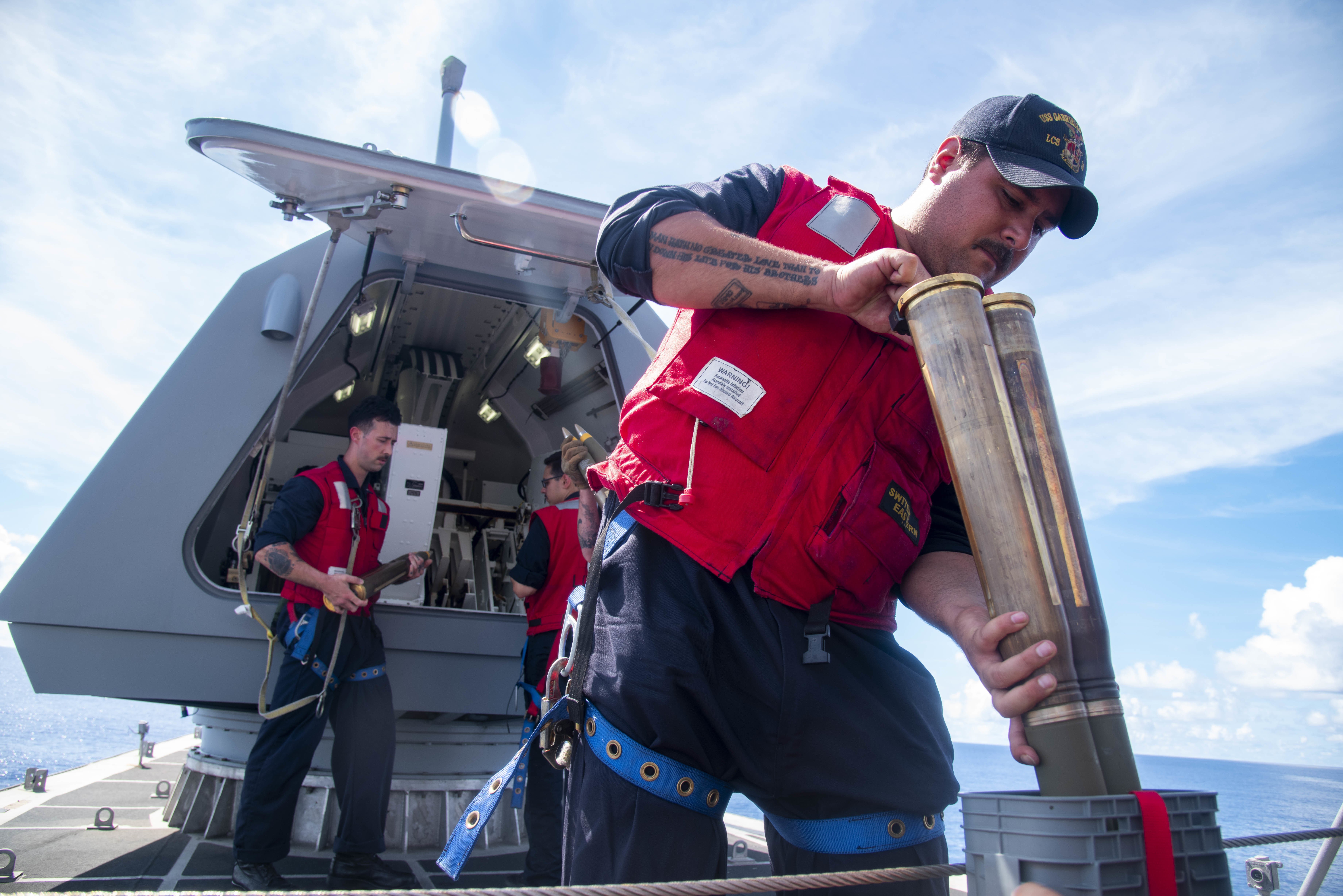 PACIFIC OCEAN (Sept. 22, 2019) Gunner’s Mate 1st Class Logan Buehner, from Portland, Oregon, handles 57 mm rounds aboard the Independence-variant littoral combat ship USS Gabrielle Giffords (LCS 10). Gabrielle Giffords is on a rotational deployment to Southeast Asia and is the fifth littoral combat ship to deploy to the region. Fast, agile and networked surface combatants, LCS are optimized for operating in near-shore environments. (U.S. Navy photo by Mass Communication Specialist 2nd Class Kenneth Rodriguez Santiago/Released) 190922-N-GZ947-0064